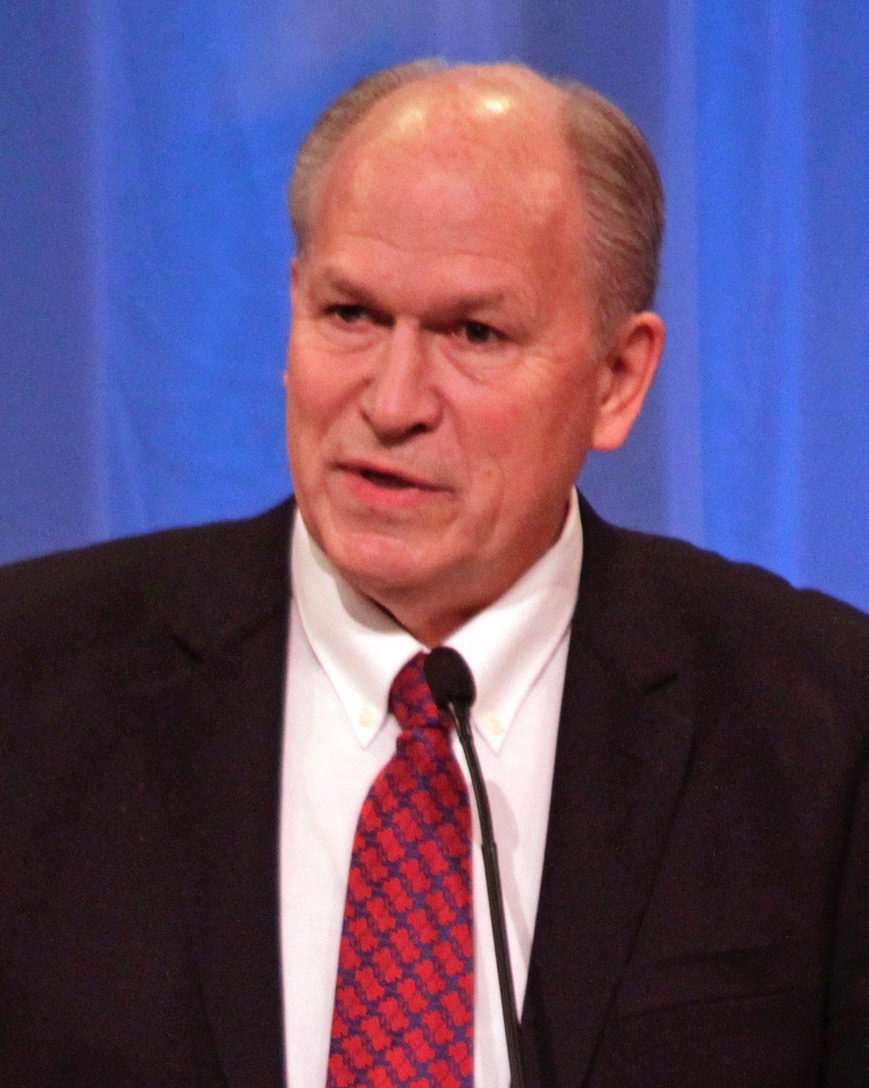 Cropped image of Alaska Gov. Bill Walker delivering his inauguration speech Monday, Dec. 1, 2014 in Juneau, Alaska's Centennial Hall.